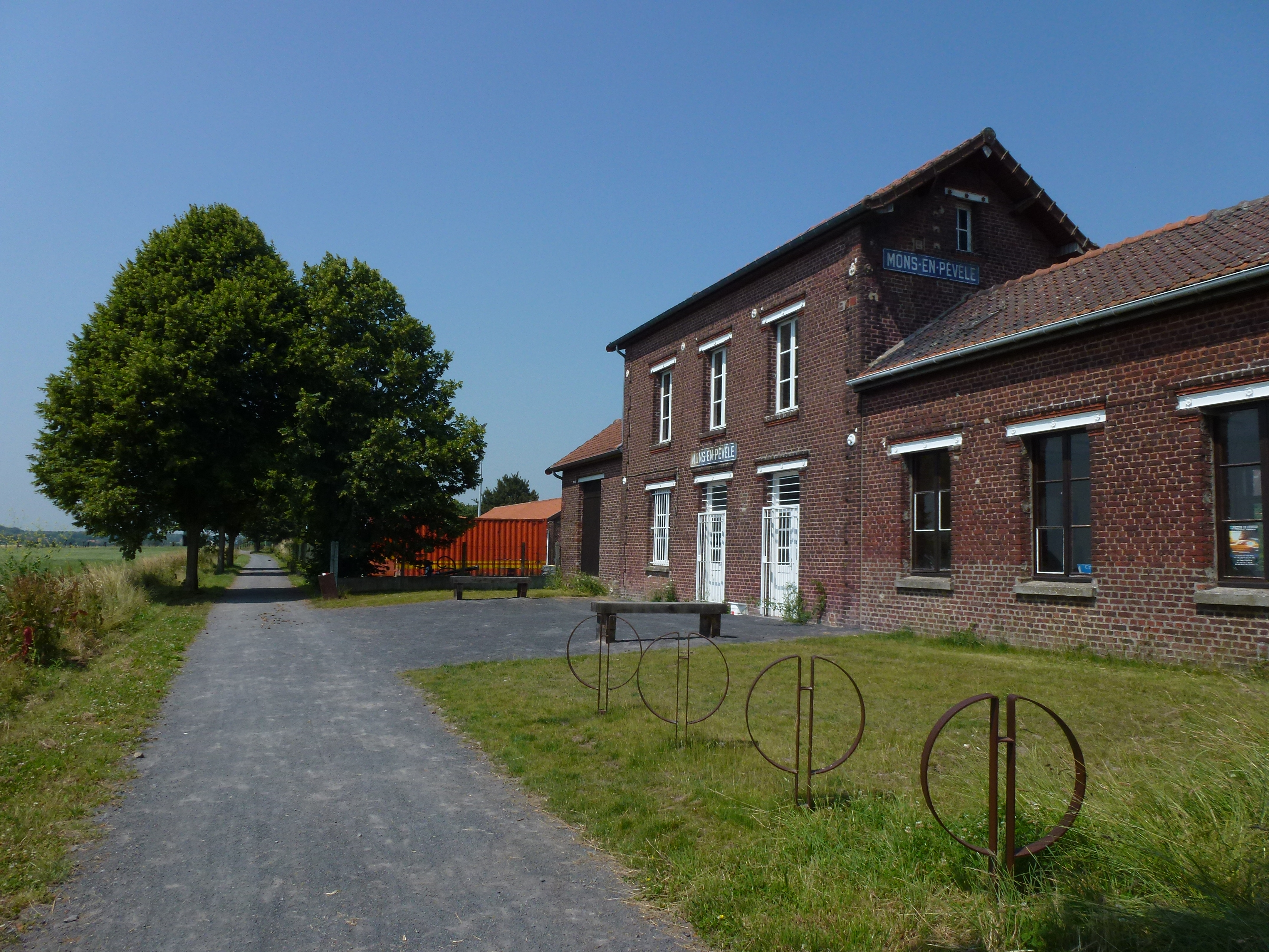 Mons-en-Pévèle (Nord, Fr) voie verte de la Pévèle, ancienne gare